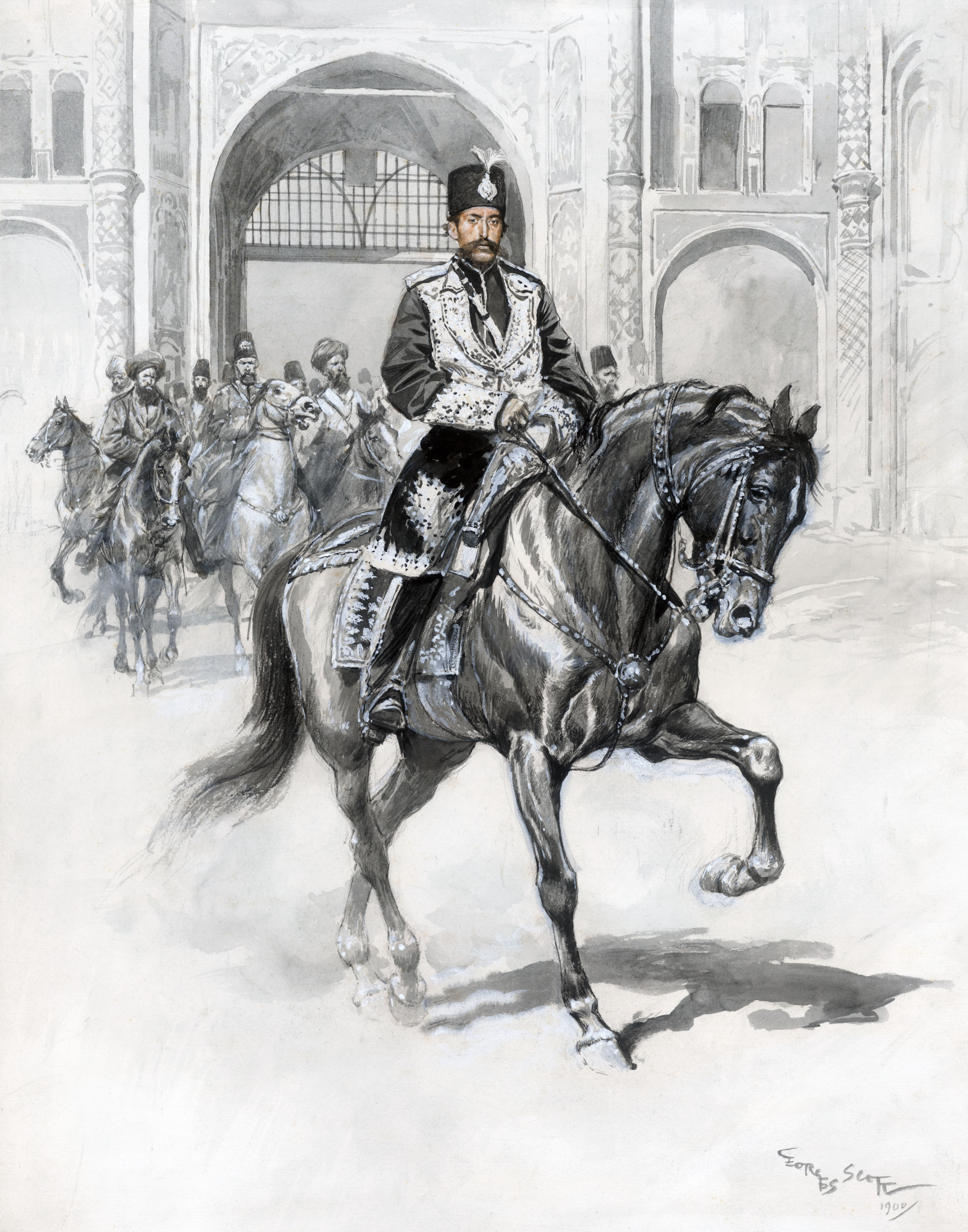 Mozaffar al-Din Shah Qajar